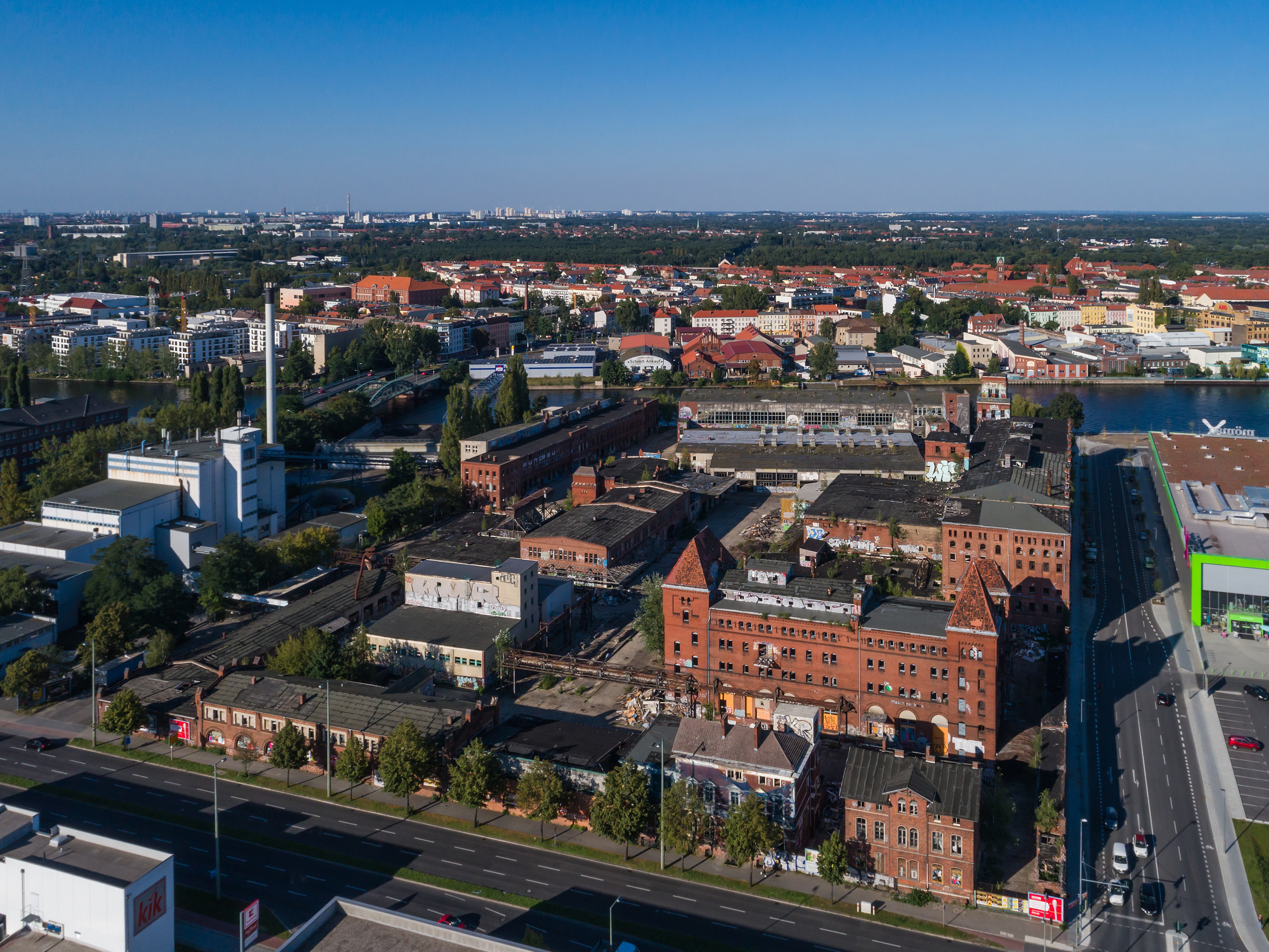 Aerial photo of former Bärenquell brewery in Berlin (Germany)